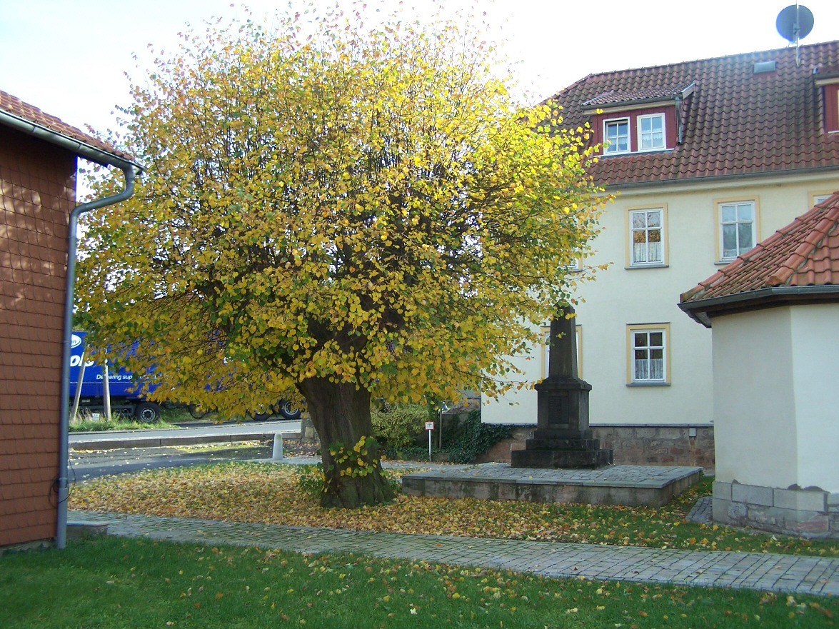 In Förtha village.